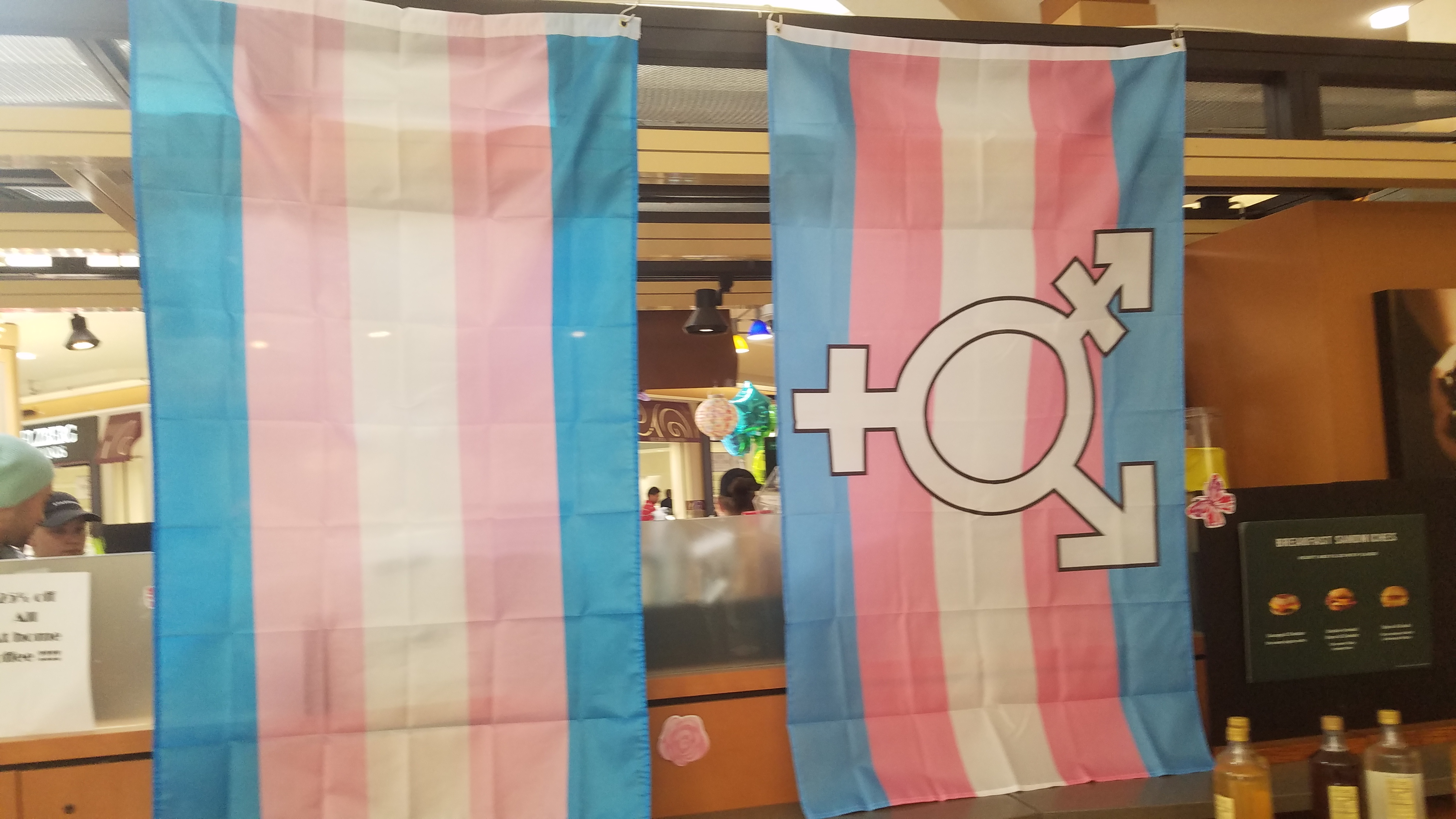 A Starbucks flying two trans flags celebrating Transgender Day of Visibility in Hanes Mall in Winston-Salem, North Carolina